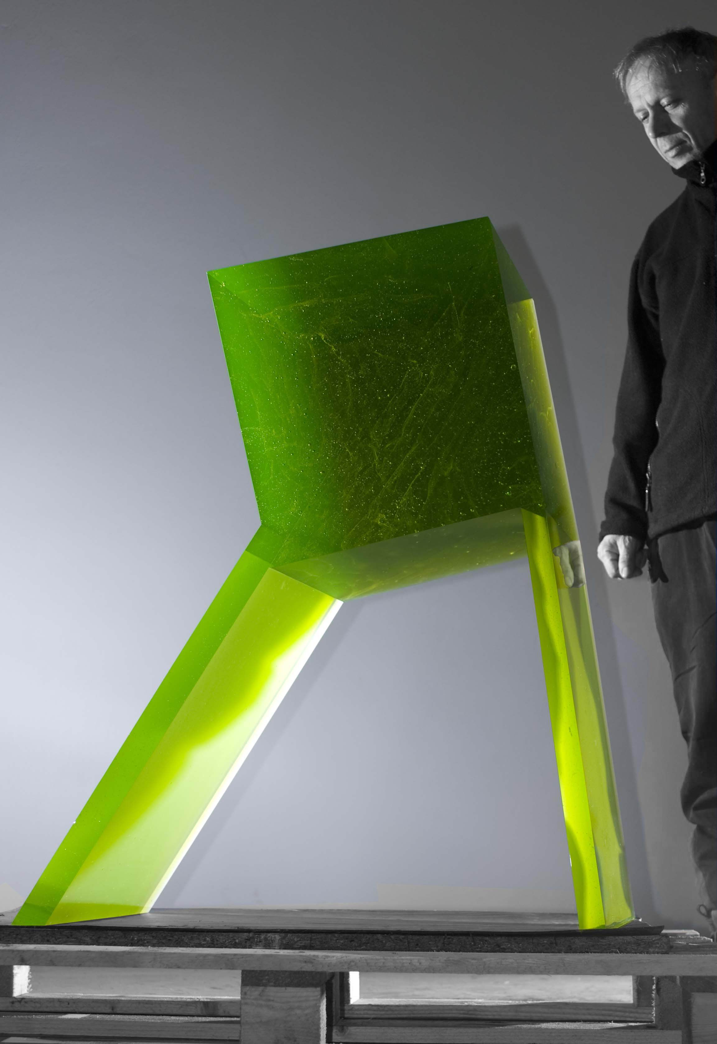 one of the most recent Libenský / Brychtová works.